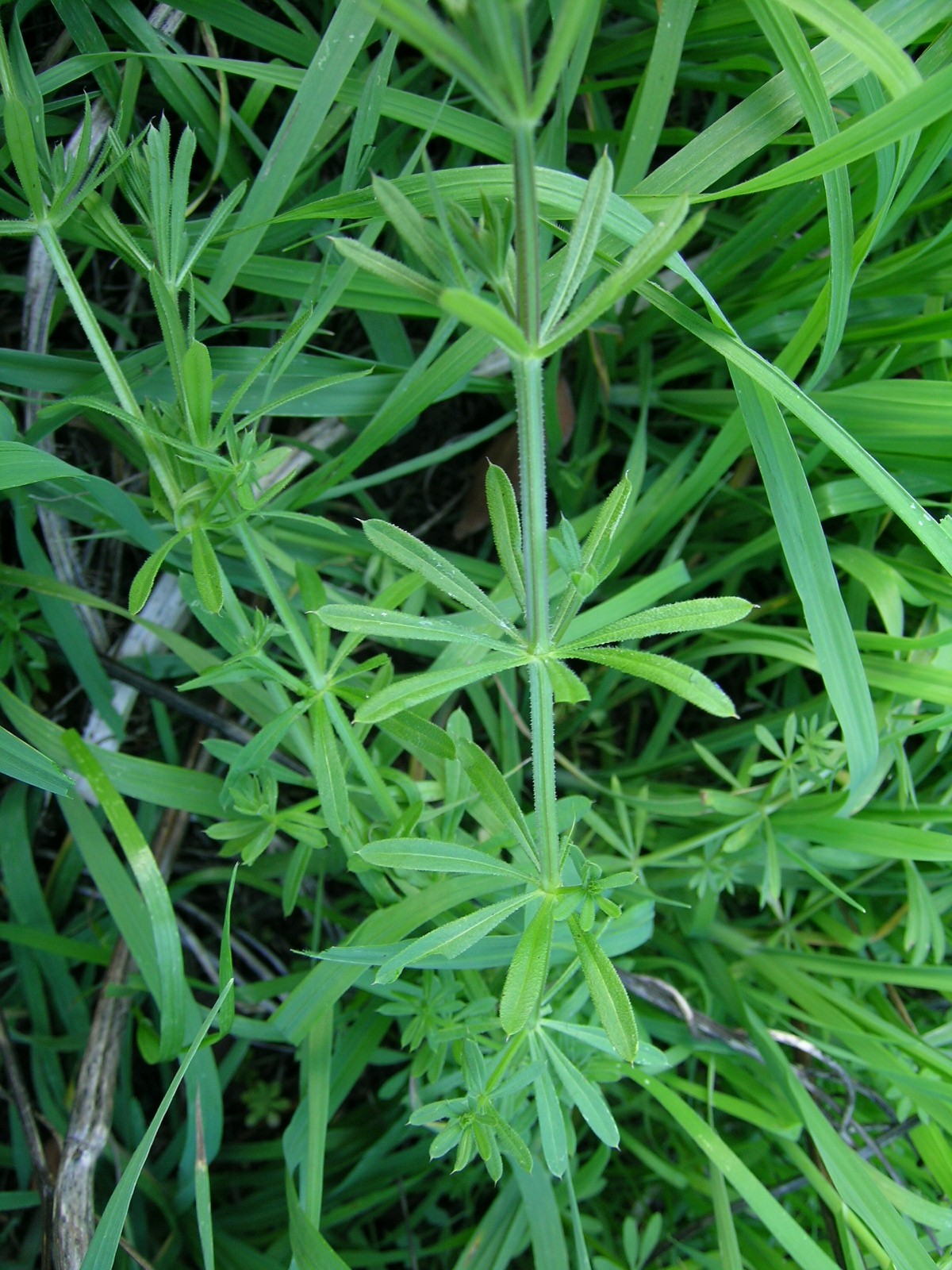 Introduced, cool-season, annual herb. Stems are more or less stout and to 1.5 m long, with retrorse prickles mainly along the angles and long thin hairs at the nodes. Leaves and stipules are in whorls of 6–9, sessile, simple, oblanceolate and 1–6 cm long; margins have recurved hairs, upper surface and midvein on lower surface have small hooked hairs. Flowerheads are mostly 2–7-flowered. Flowers are to 1 mm long and whitish. Fruit are 3–5 mm long and densely covered with hooked hairs. Flowering is from August to January. A native of Europe, it is a widespread weed.